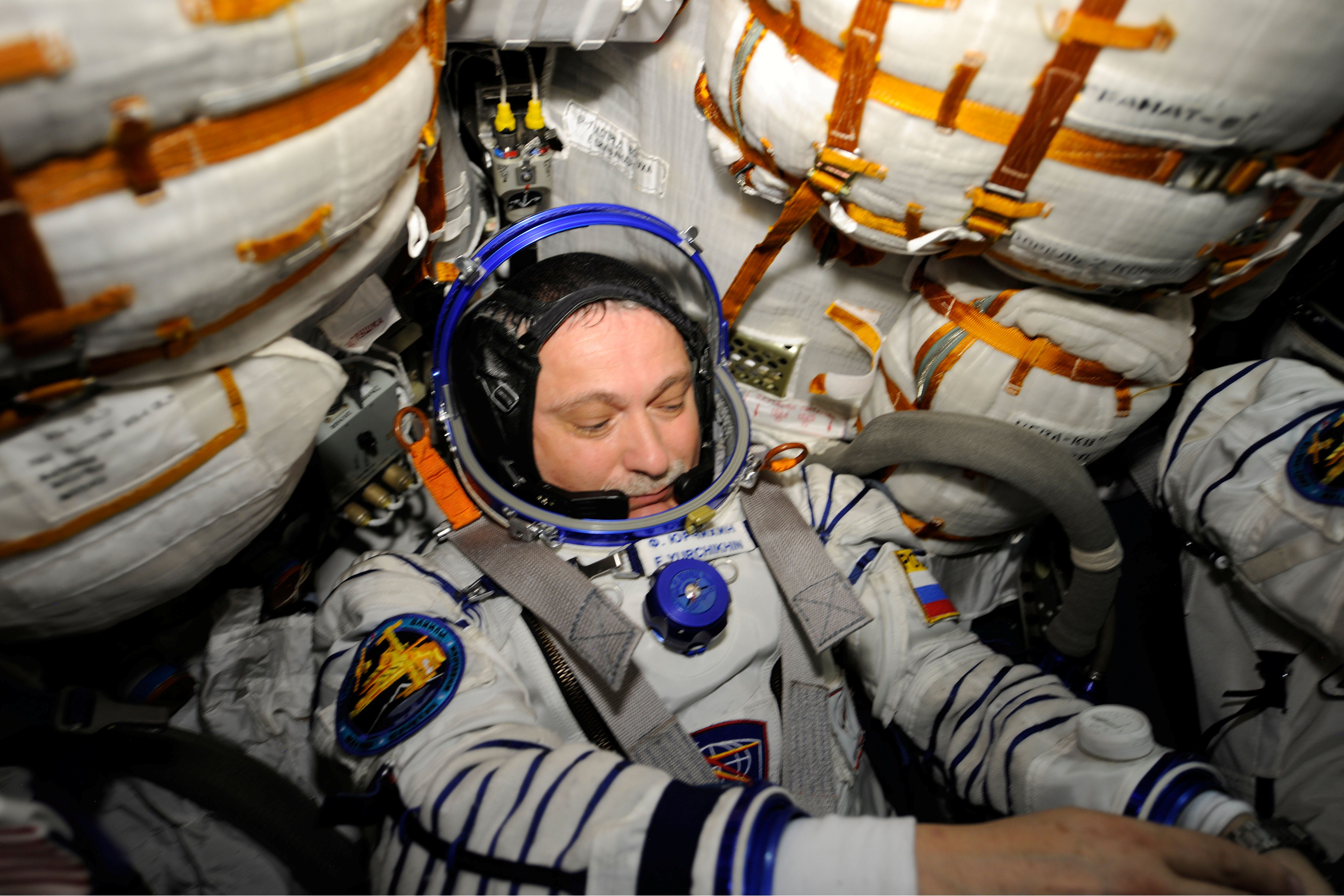 Russian cosmonaut Fyodor Yurchikhin, Expedition 24 flight engineer, attired in his Russian Sokol launch and entry suit, occupies his seat in the Soyuz TMA-19 spacecraft docked to the International Space Station. Yurchikhin, along with NASA astronauts Doug Wheelock and Shannon Walker (both out of frame) were about to relocate the Soyuz from the Zvezda Service Module's aft port to the Rassvet Mini-Research Module 1 (MRM1).